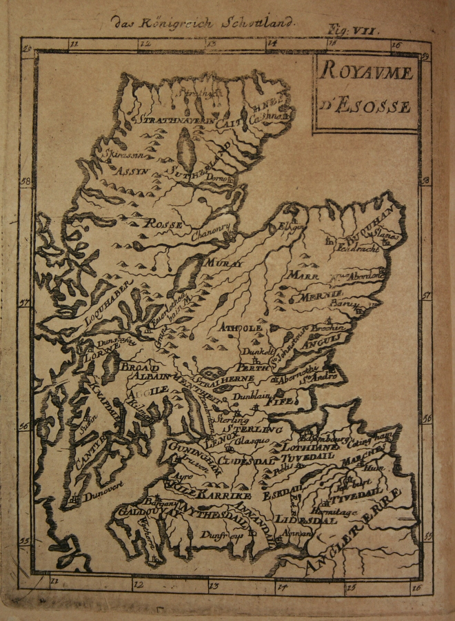 All the maps and views shown here come from different editions (1683-1719) of Mallet; some of them are from translations into German and Italian, and some from later reissues by others, with or without small modifications. (For reference: *a complete list of Mallet maps and views*.) Many of the maps and views shown here have modern hand-coloring. The images come from various offerings by *the honor roll of map sources